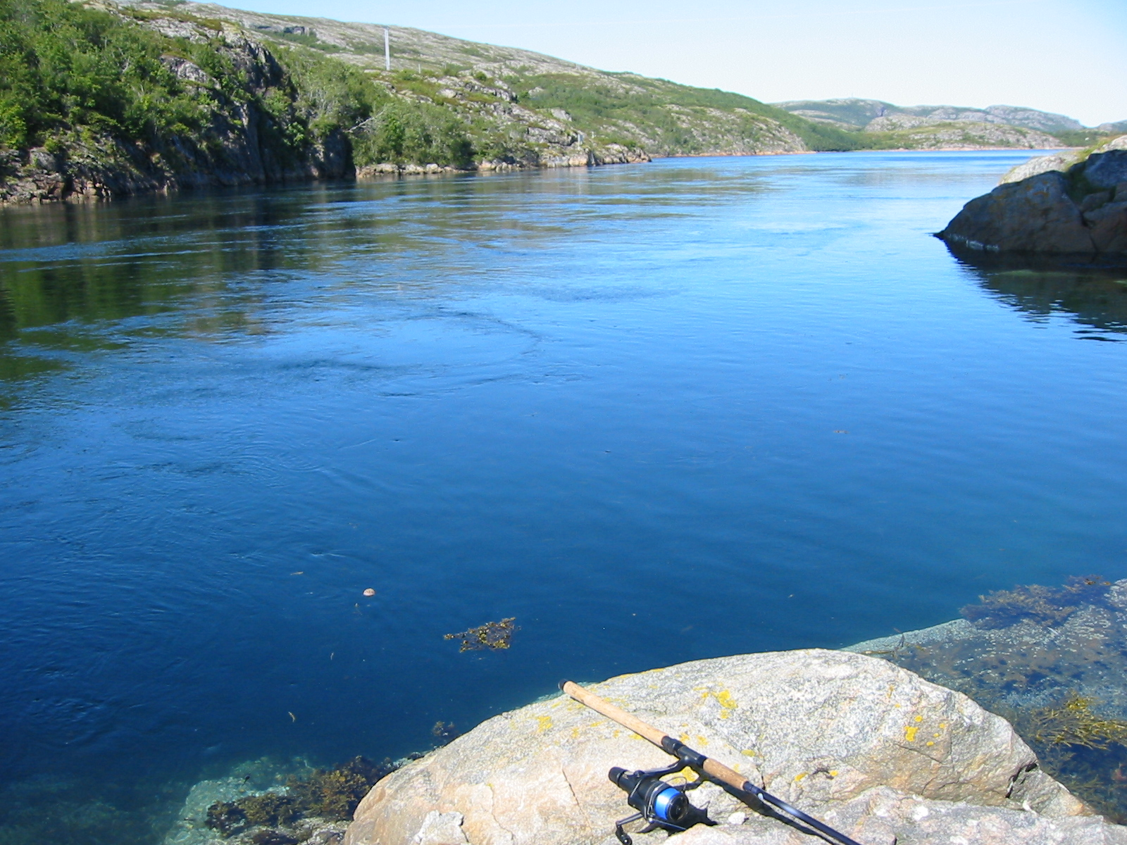 Langsundet is a long, narrow strait between Yttervikna island and Mellomvikna island, Vikna municipality, Norway. The tide creates currents, which is good for fishing. The picture is taken by myself near the bridge, where the strait is at its narrowest. This was a warm day (26 degr Celsus), July 30 2006.